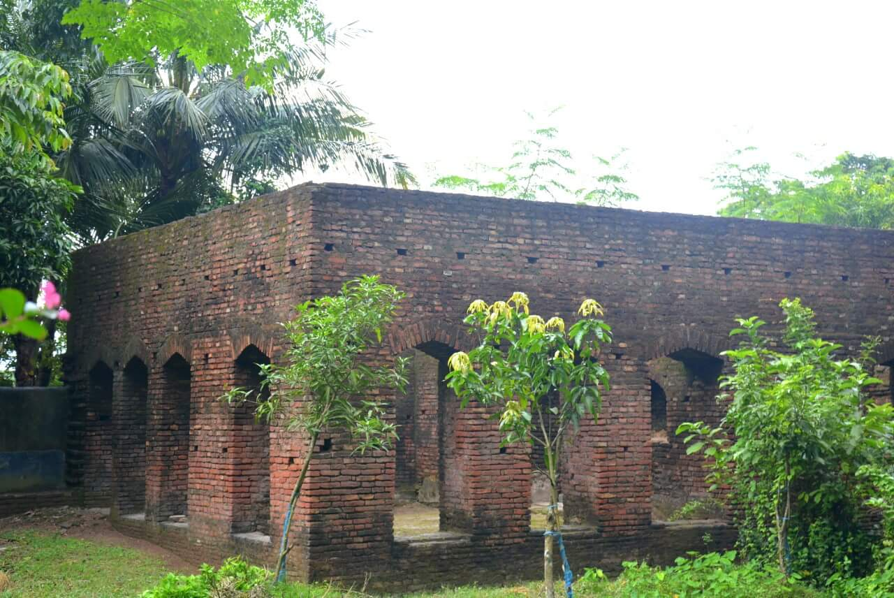 Jahajghata Hammam & Adjacent Archaeological Sites: Jahajghata is a village situated 4 km north from the Upozilla. Here situated 'Jahajghata Noudurga' established at the reign of King Pratapadittya. His usable boats were built and repaired in this place. Kaligannj-Shyamnagar paved road that space today, there was the river Zamuna. And on either side of the Zamuna River Pratapadittya built in a planned way "Jahajghata Noudurga". As a result of the reform of the Department of Archaeology of the previous model have survived. Currently there are five-room building, which is 100 long and 206 wide. In Five room there is a common room for sitting, an office, a shipbuilding equipment for keeping, a staff for a bath and a room used as a bedroom.